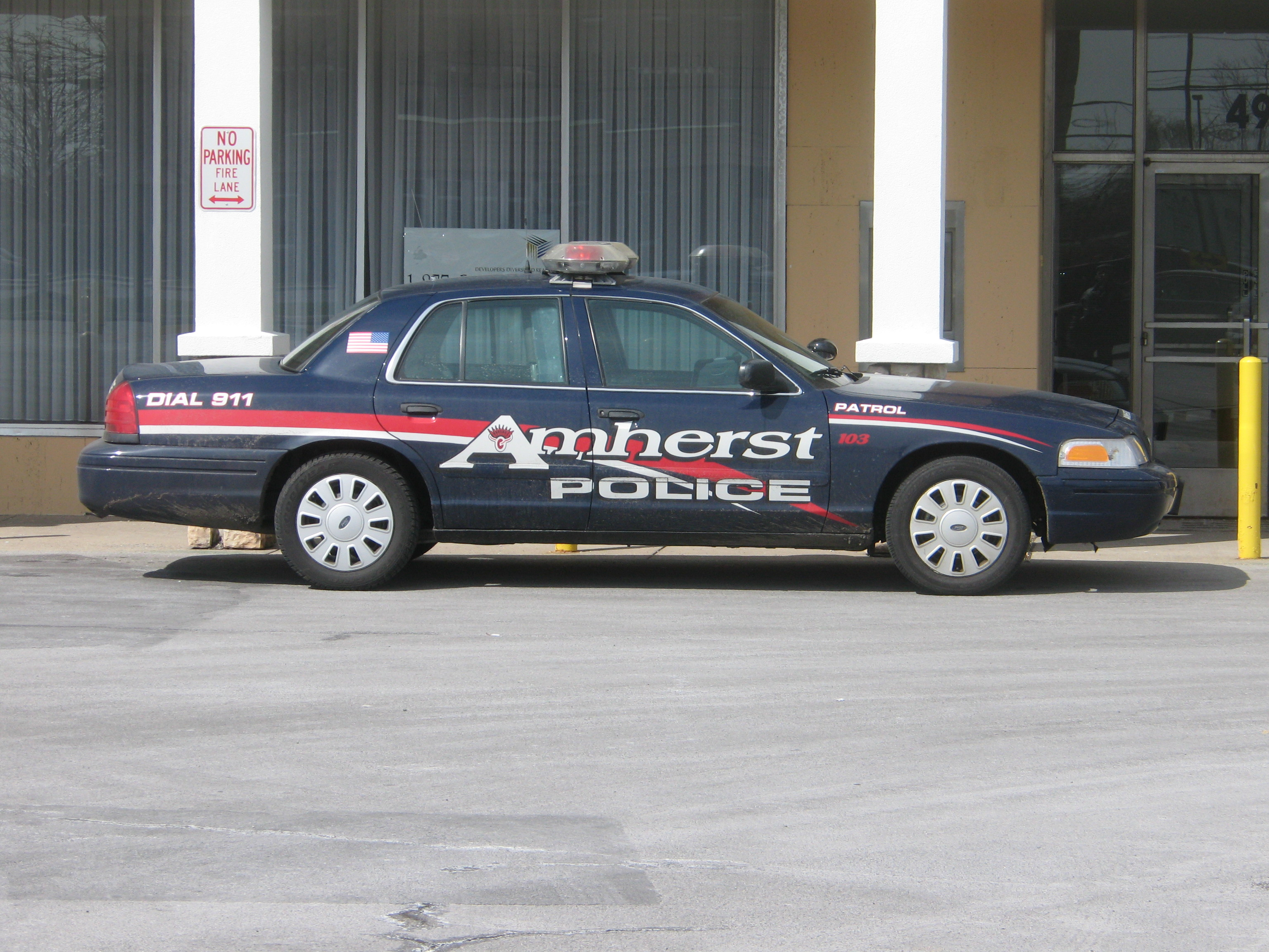 Amherst, New York Police Department patrol car